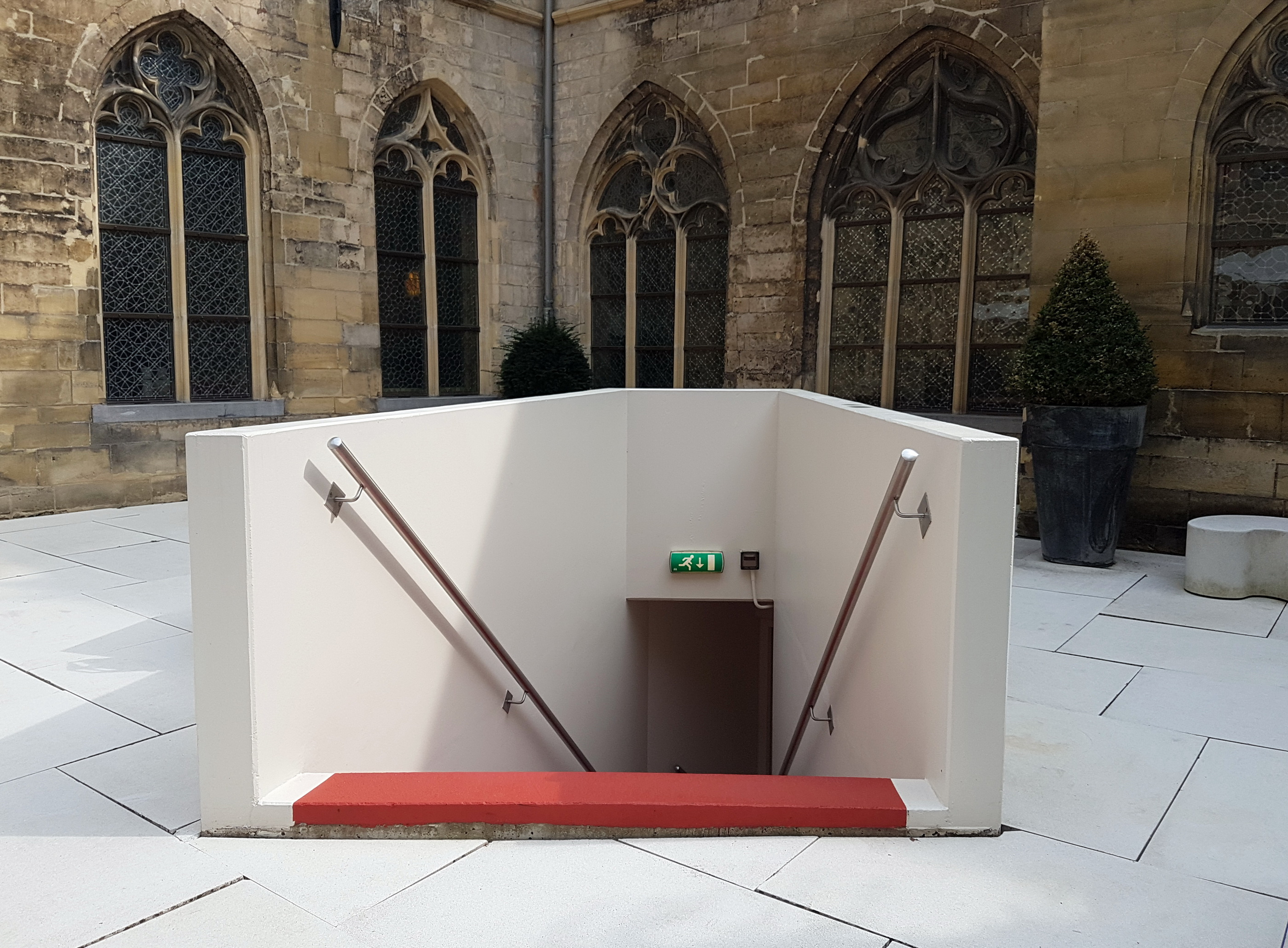 Detail of the cloister yard of the Kruisherenklooster in Maastricht, the Netherlands. The Gothic Monastery of the Crutched Friars dates from the 15th century and in 2005 was converted into a luxury hotel, the Kruisherenhotel. The stairs lead to an emergency exit underneath the south wing of the cloisters.